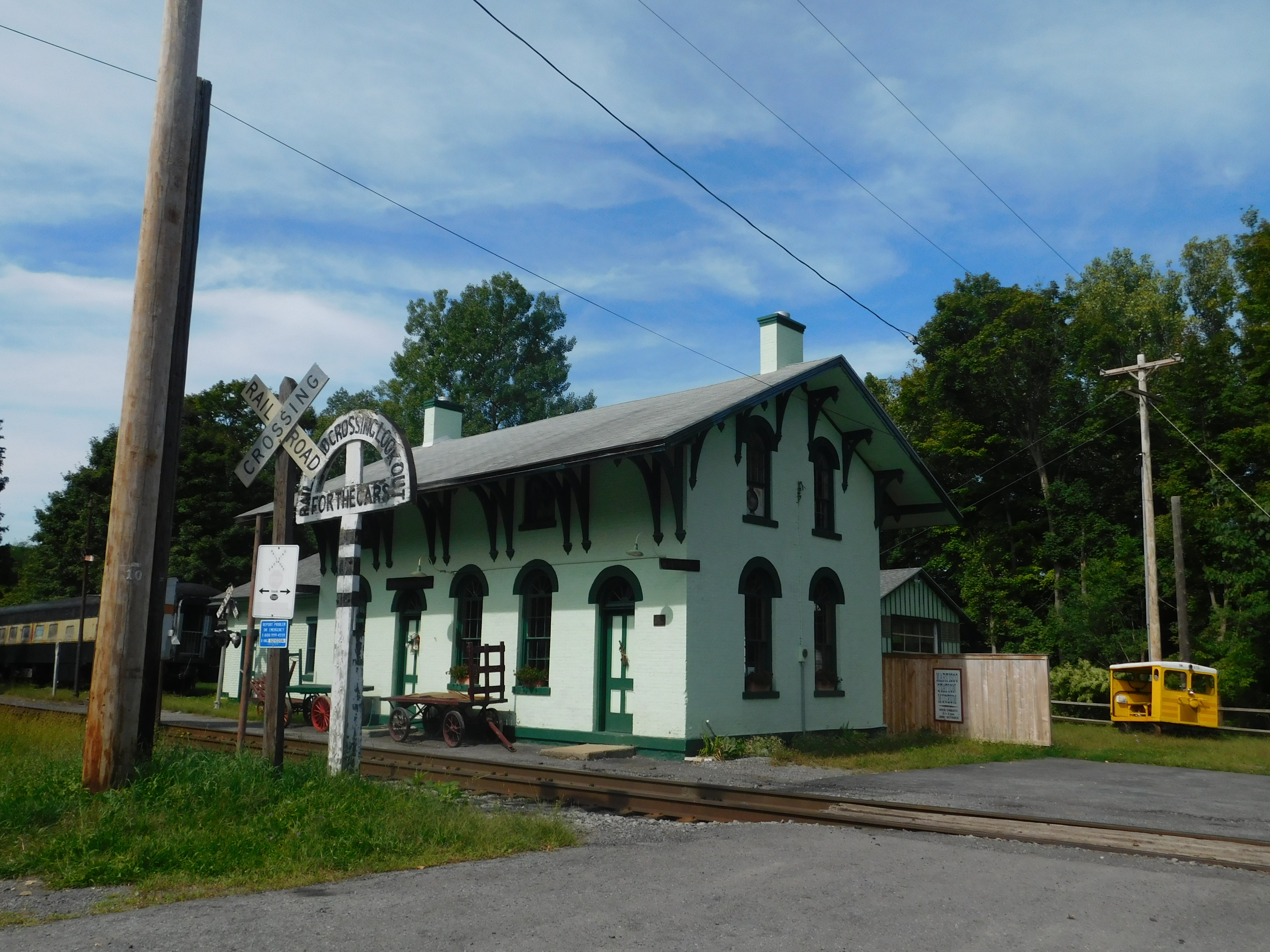 Martisco station of the New York Central Railroad.